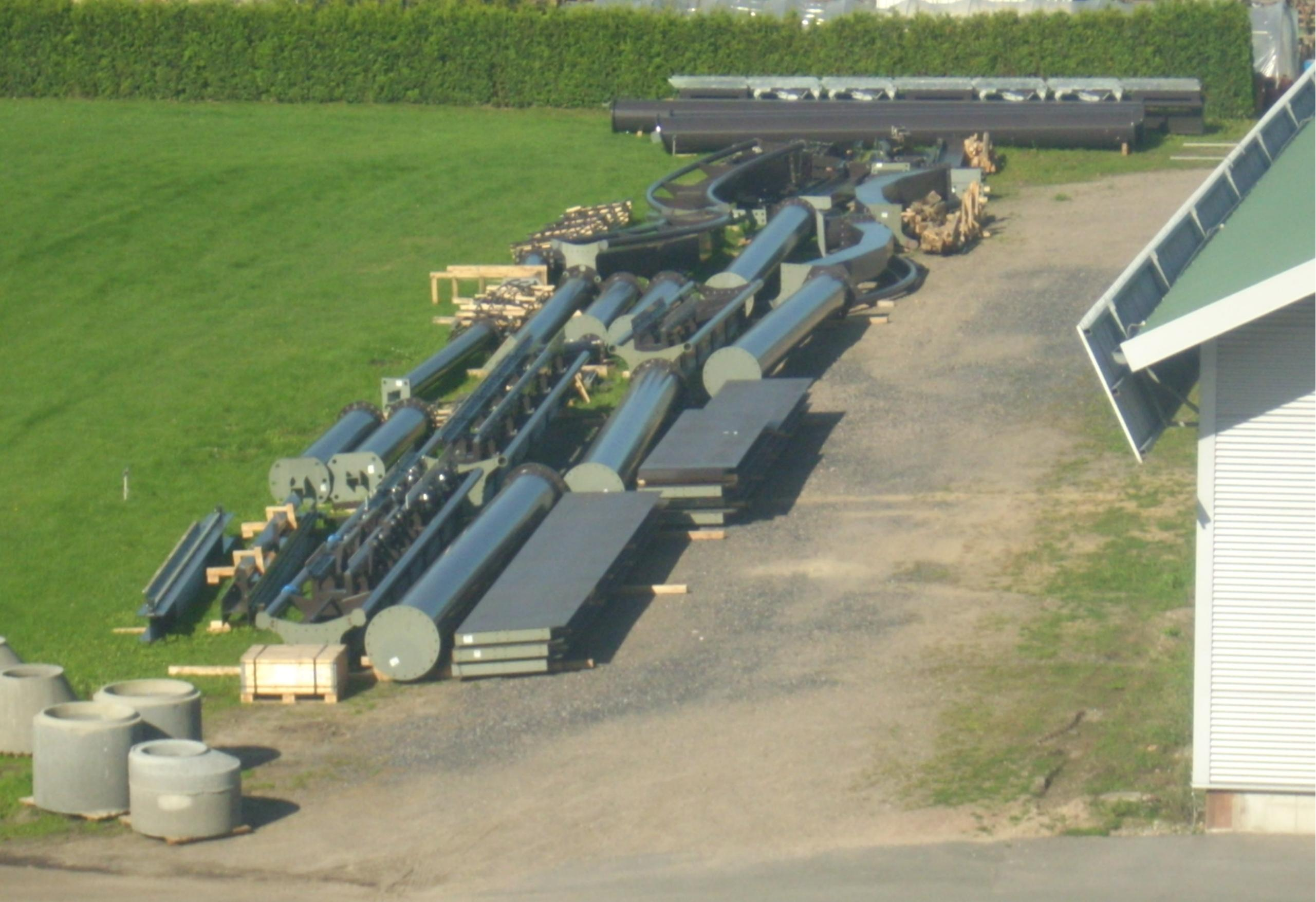 A picture from rails of "Krake".